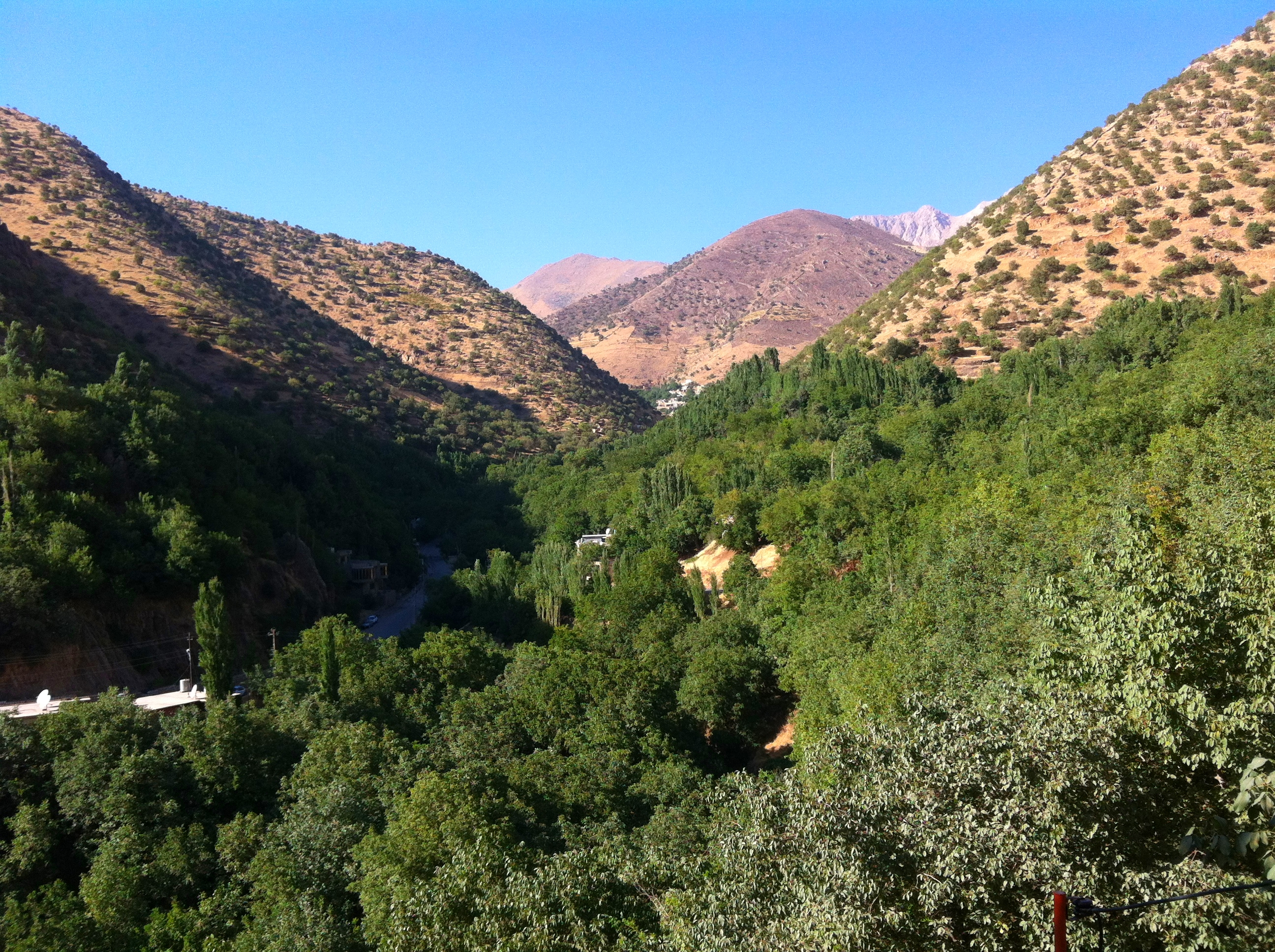 Hawraman - Tawela Village in Sulaymaniyah, Kurdistan, Iraq